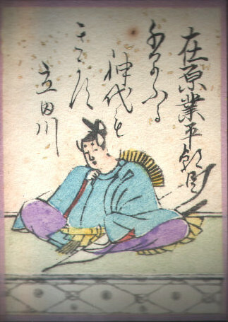 A portrait of Ariwara no Narihira Ason; illustration from an uta-garuta playing card for Hyakunin Isshu, created in the Edo period.